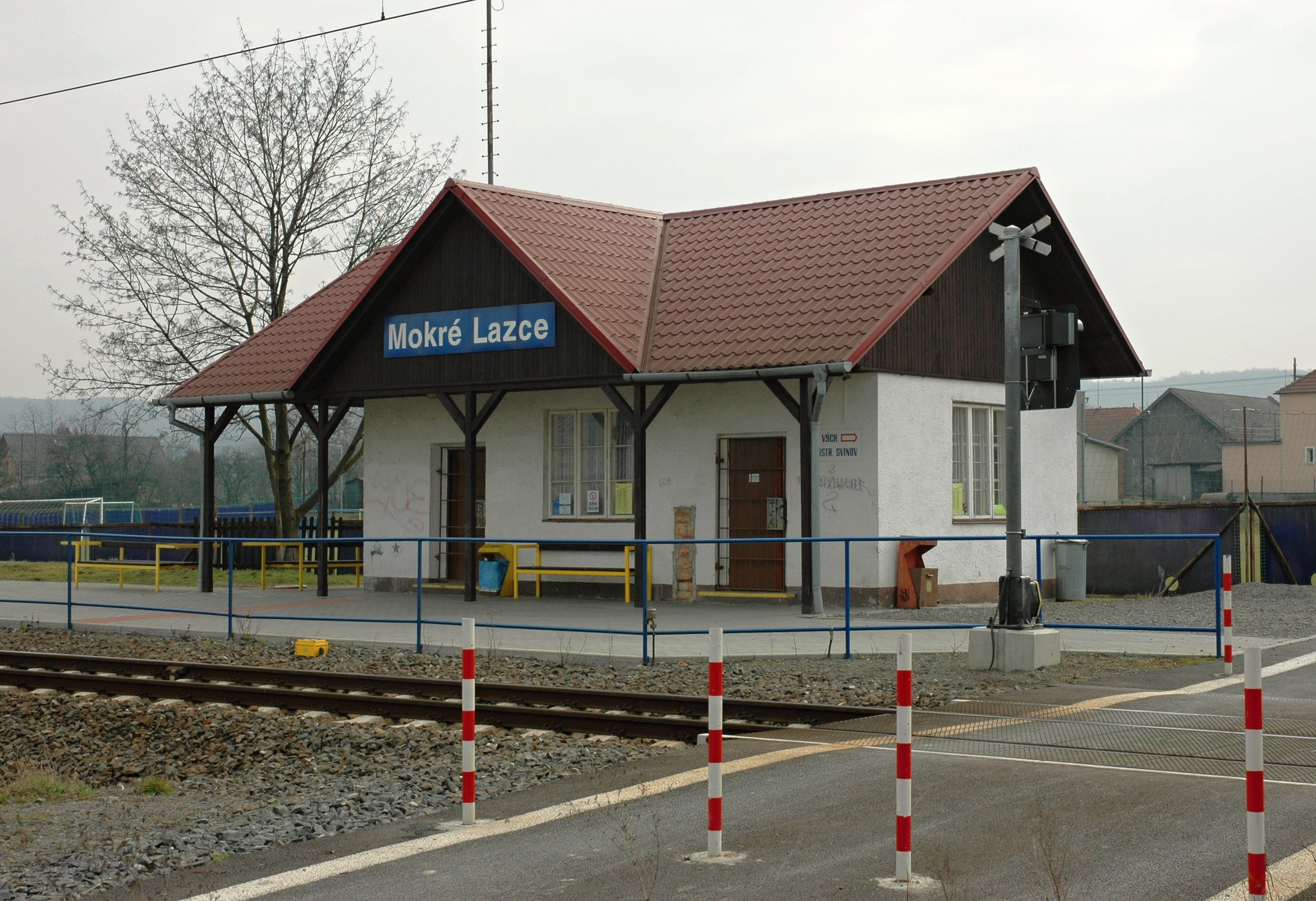 Mokré Lazce railway stop, the Czech Republic